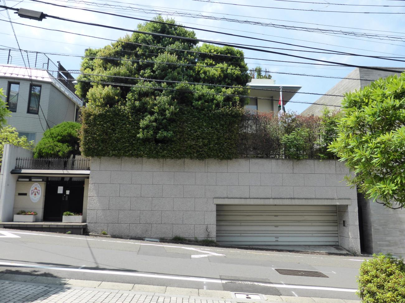 Exterior of the Embassy of Jordan in Japan